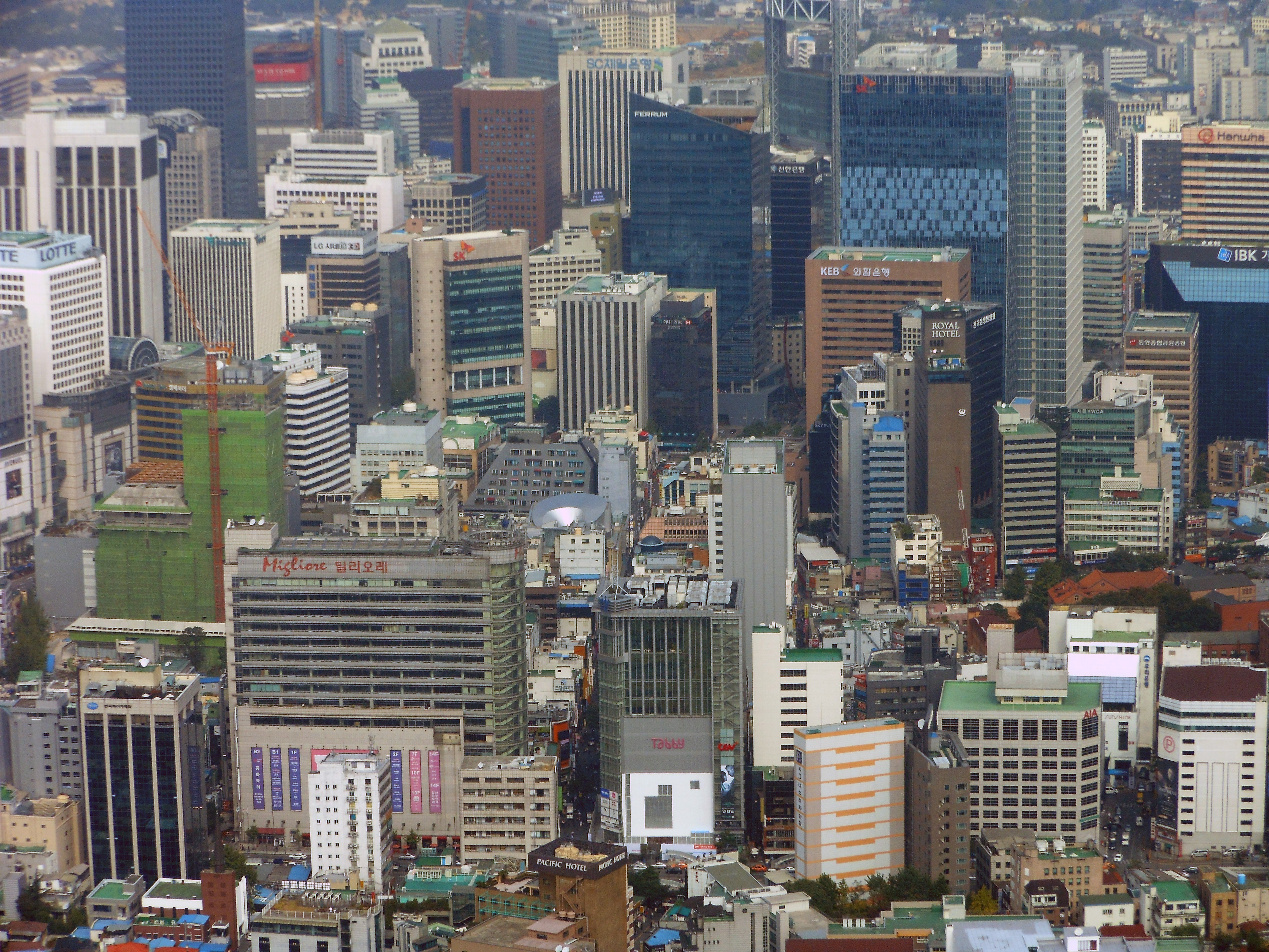 Myeongdong, Seoul KOREA